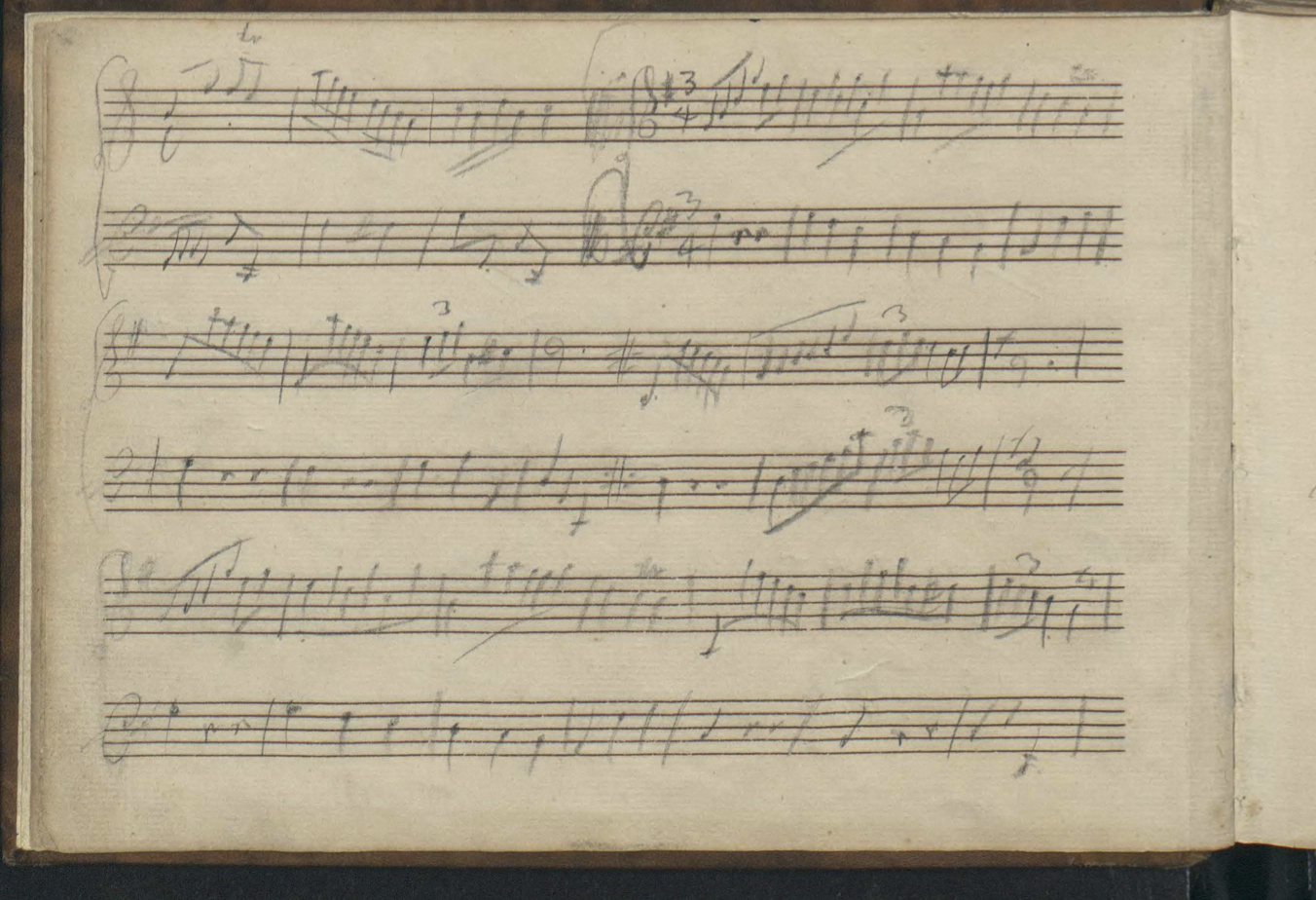 4th page from the "Londoner Skizzenbuch"